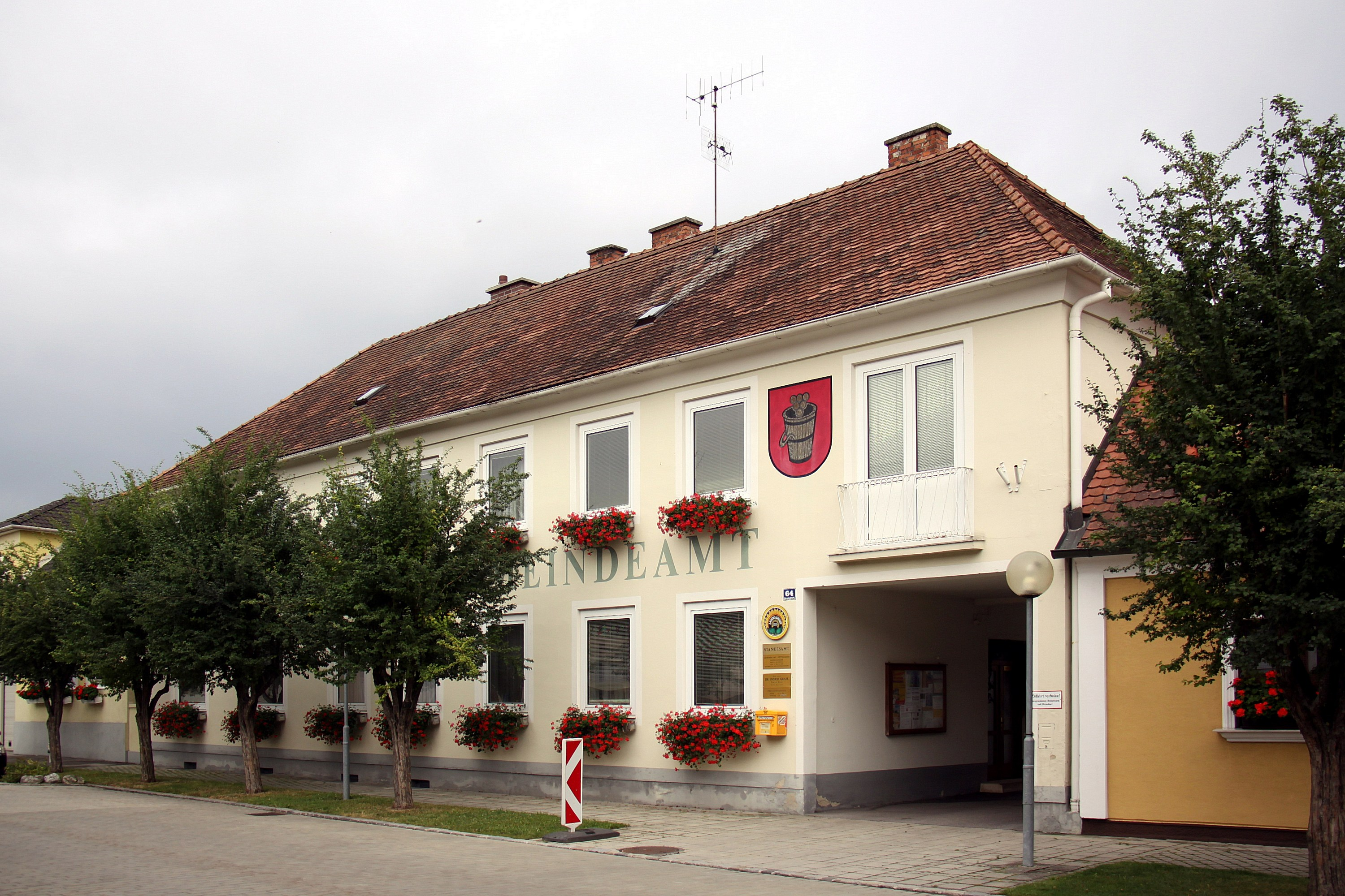 Municipal office - Pöttelsdorf Object location47° 45′ 11.44″ N, 16° 26′ 15.23″ E